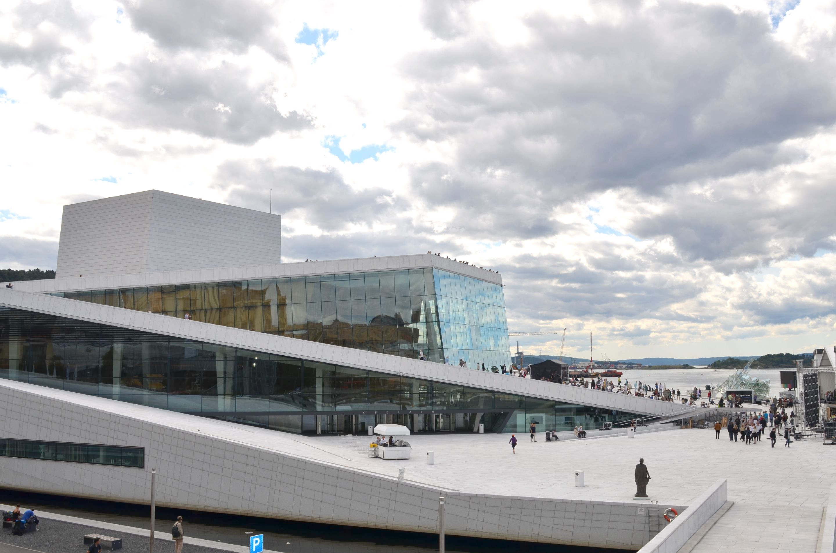 East facade - the view of the entrance.